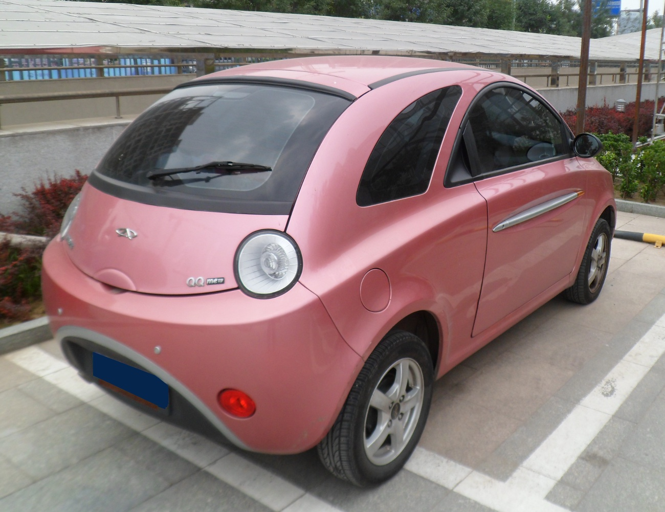 Chery QQme photographed in Beijing, China.